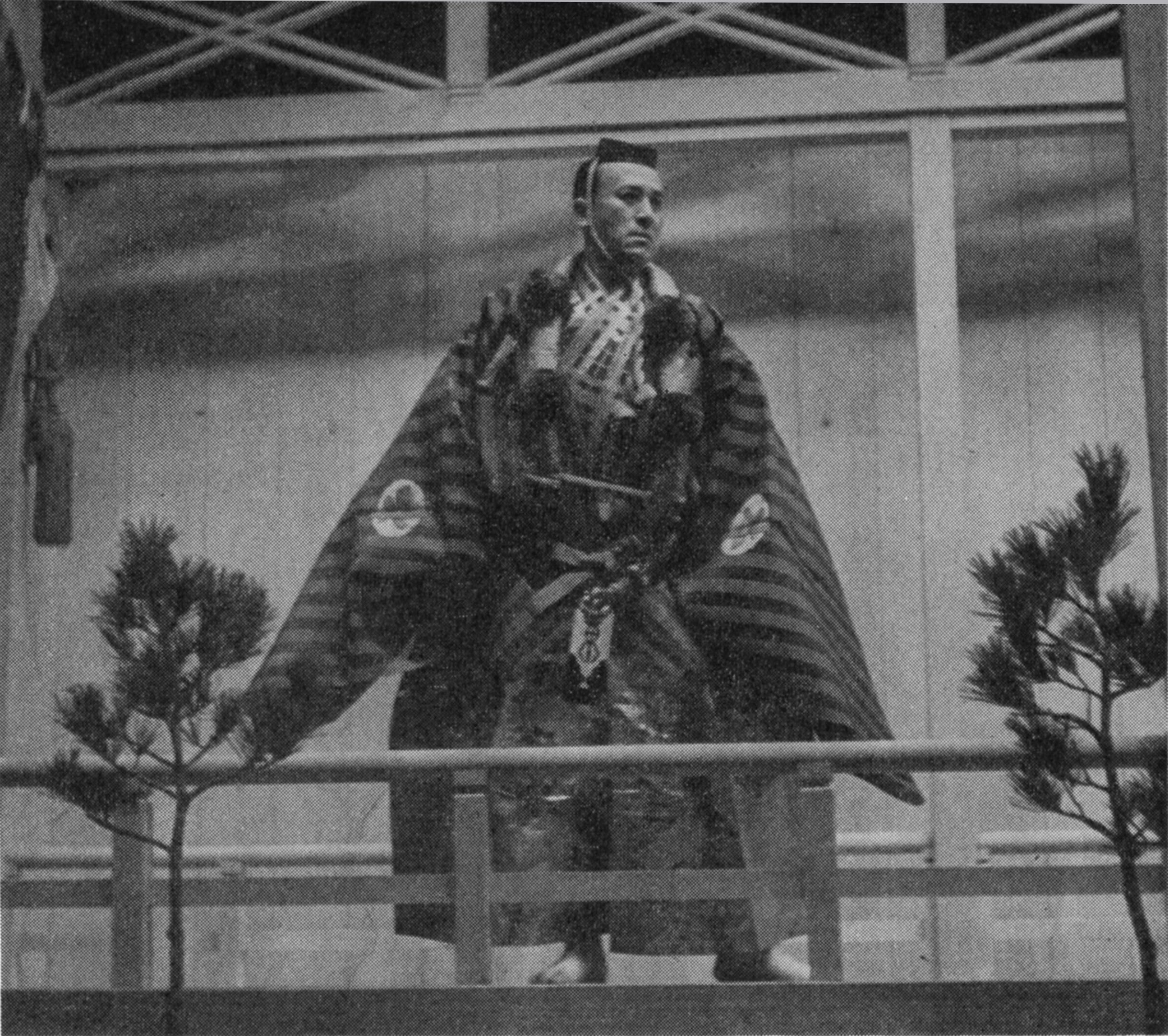 KANZE Sakon(1895 - 1939), Ataka